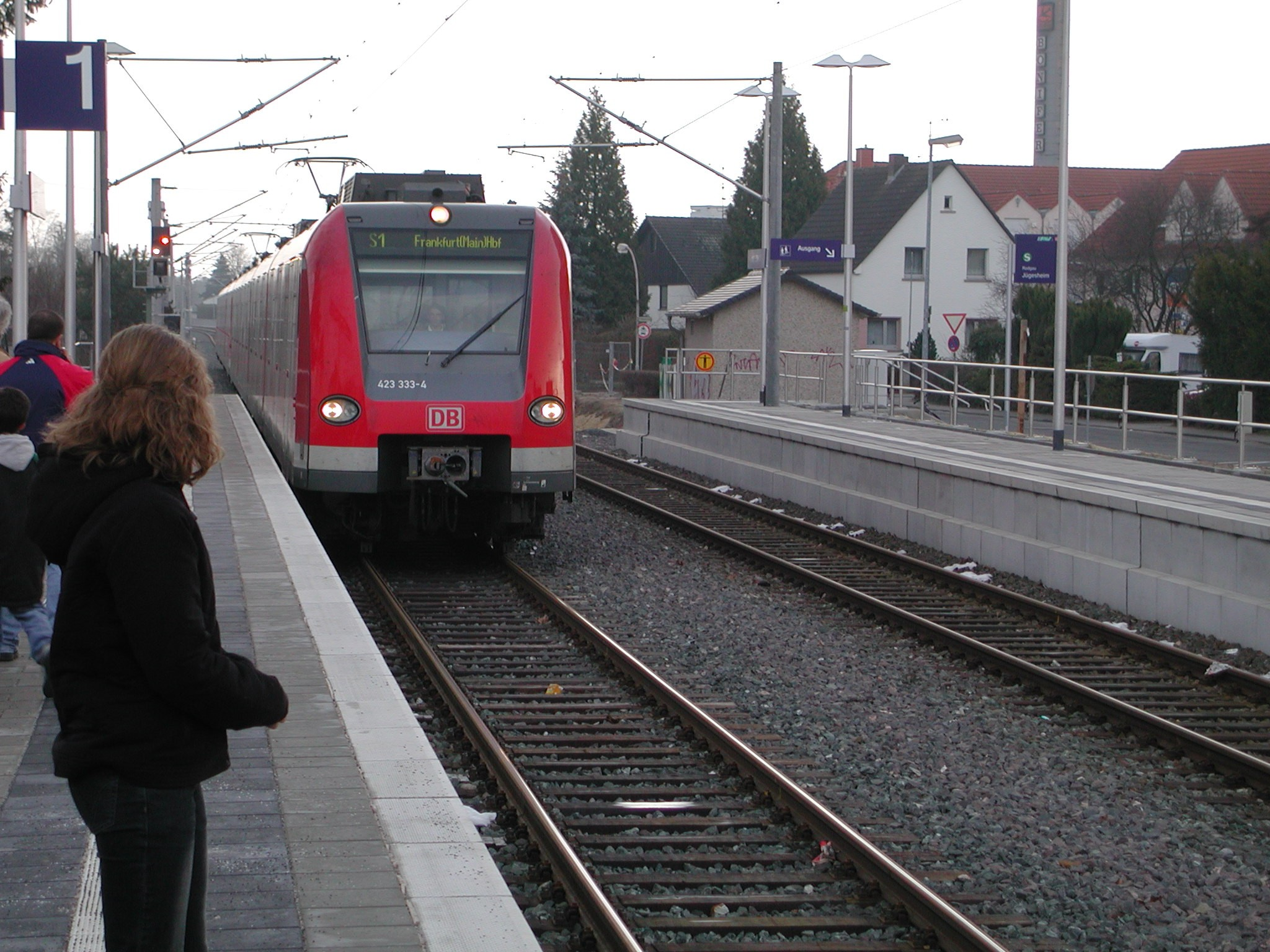 Frankfurt's suburban rail train type 423 on line s1 (so-called "Rodgaubahn") at Jügesheim train station